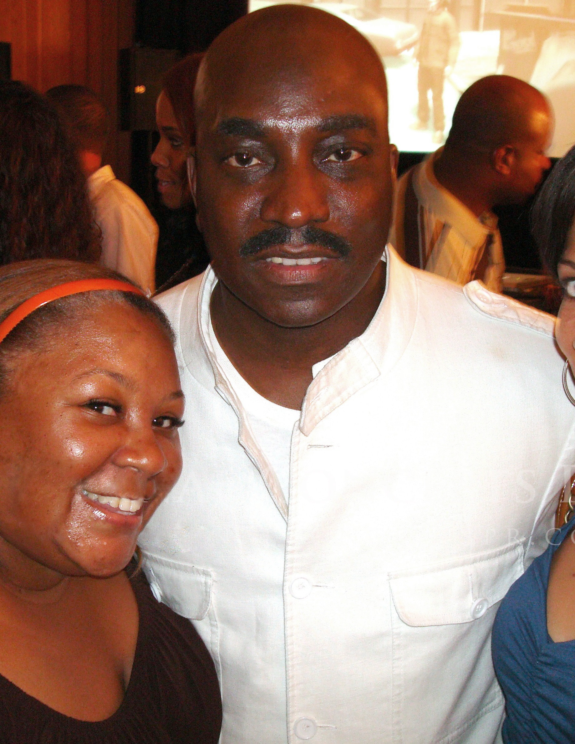 Actor Clifton Powell